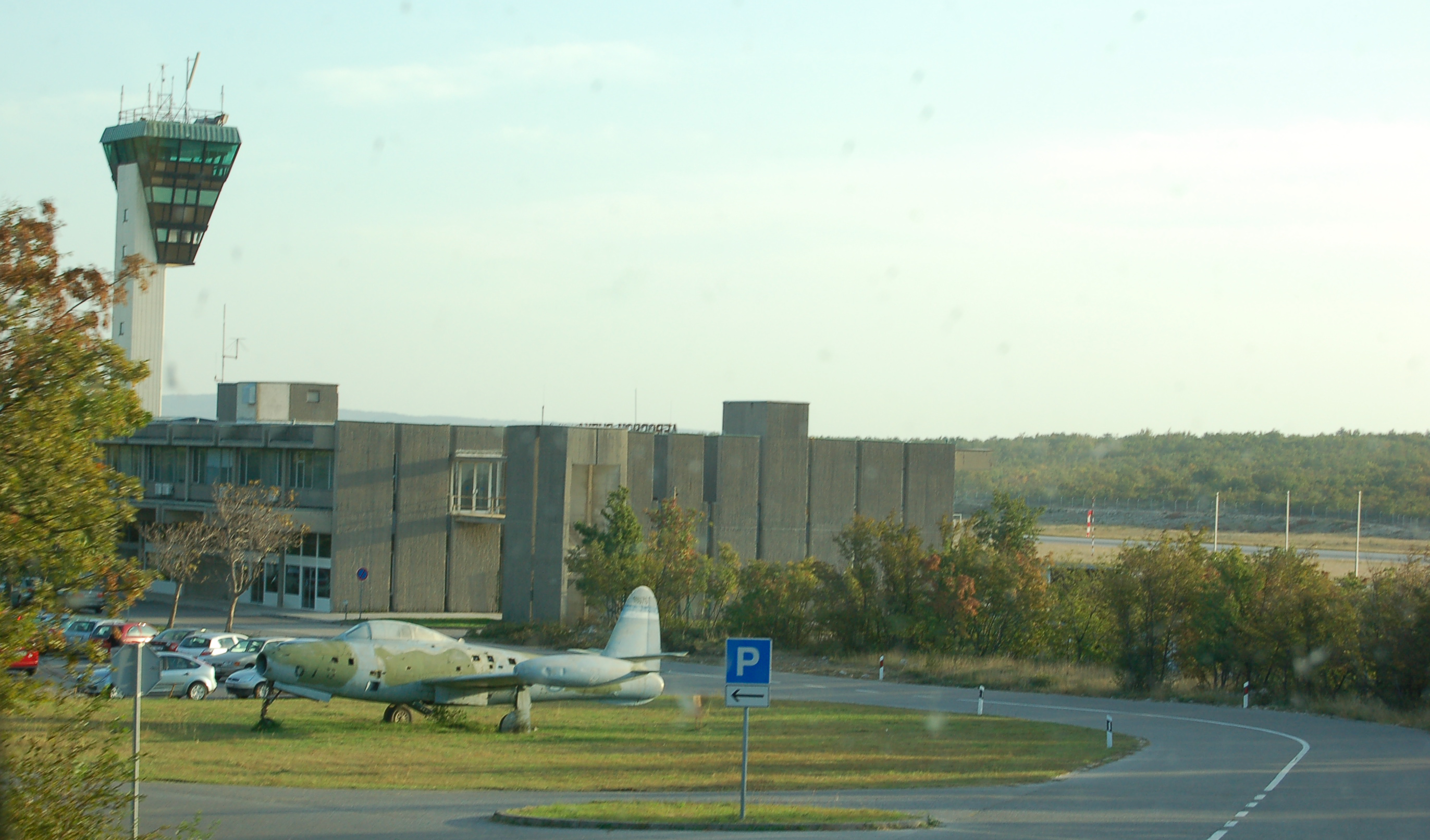 Rijeka Airport, Croatia taken from the main road leading to the airport.